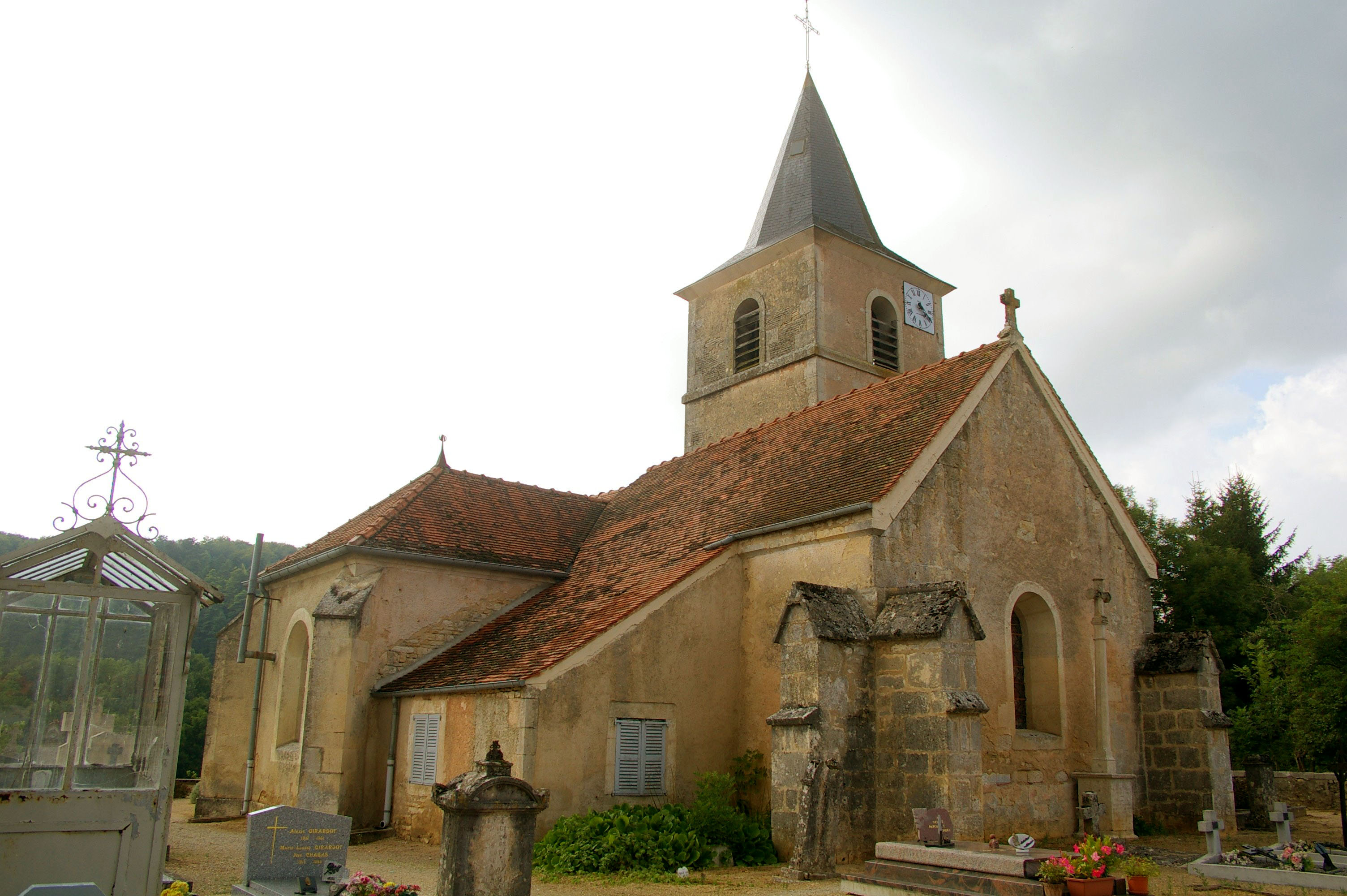 Church Santenoge (commune Villars-Santenoge France) 12th century